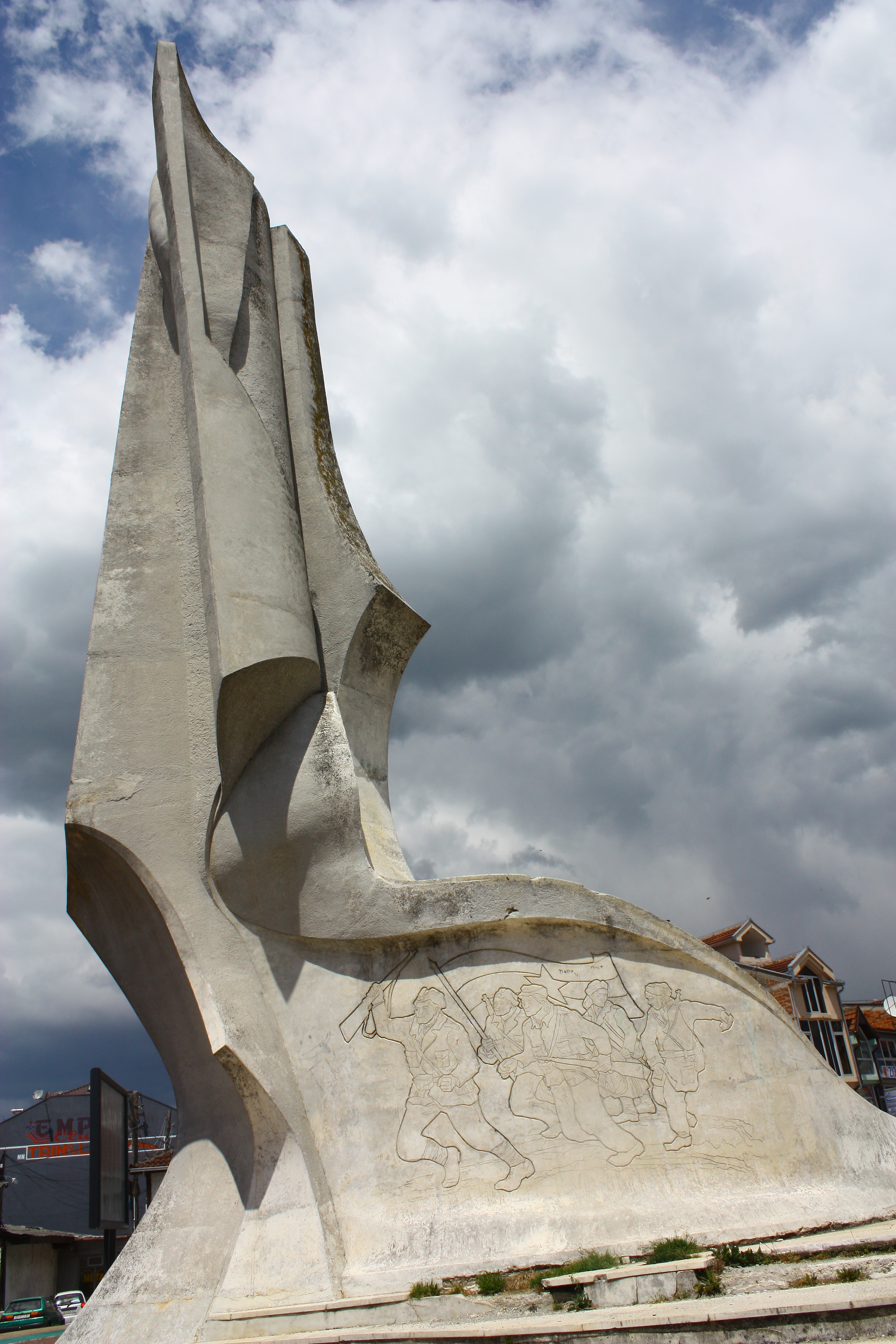 Monument to the Revolution ( in Struga, Macedonia